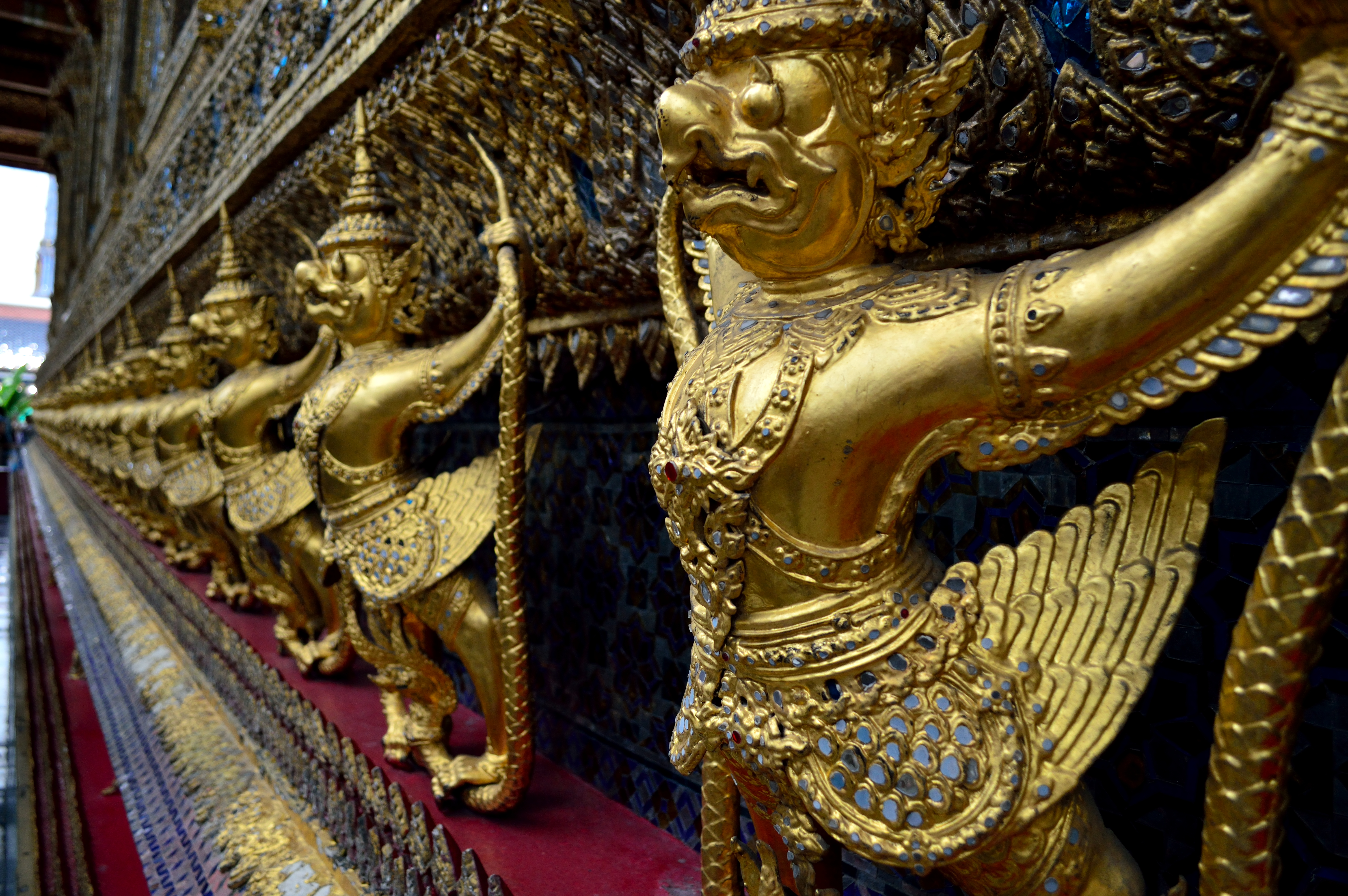 A row of golden Garudas fighting with Nagas (snakes) in the bot of the Wat Phra Kaew, Bangkok.